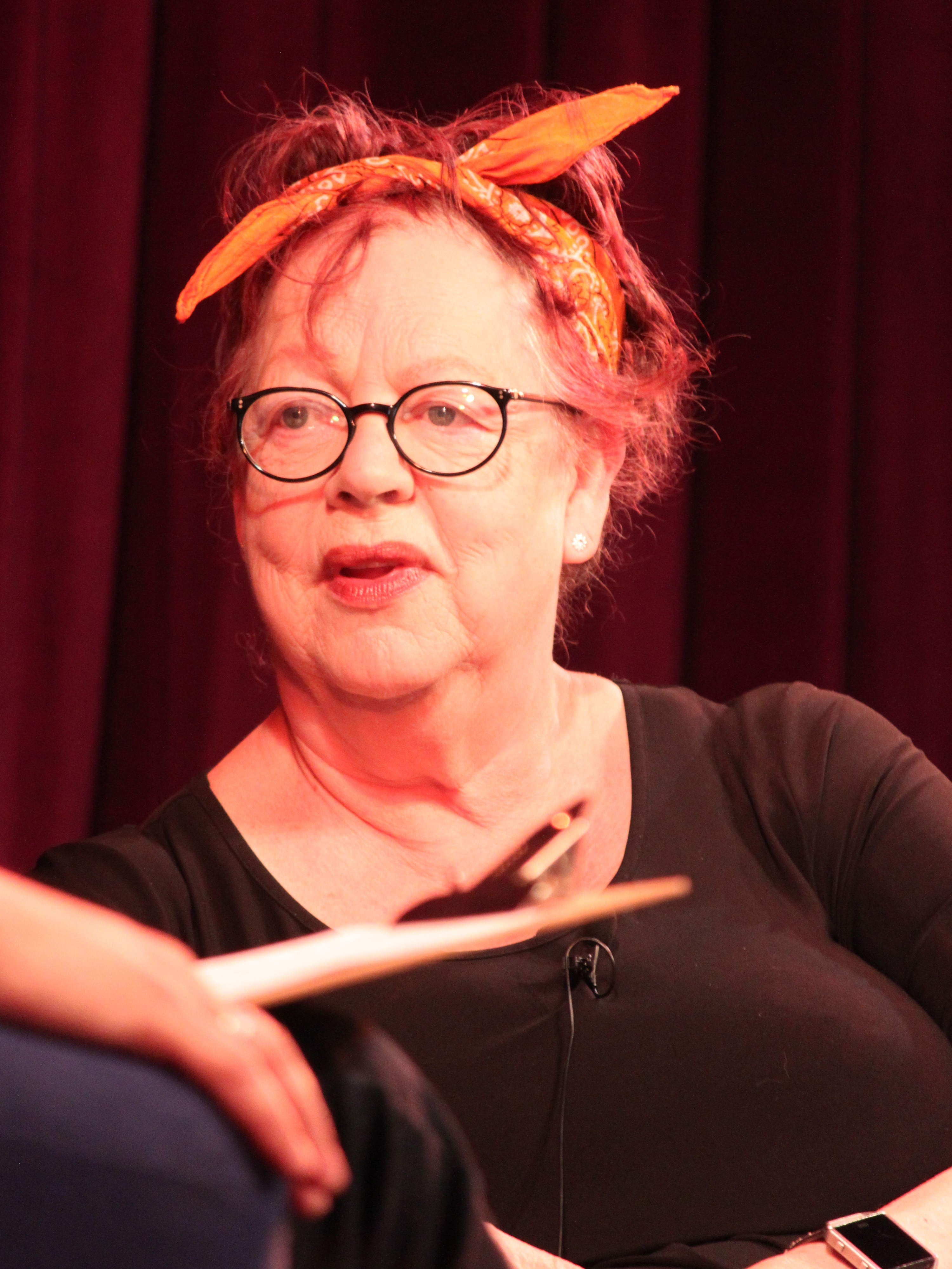 Jo Brand appearing in the cabaret tent at Glastonbury Festival 2019